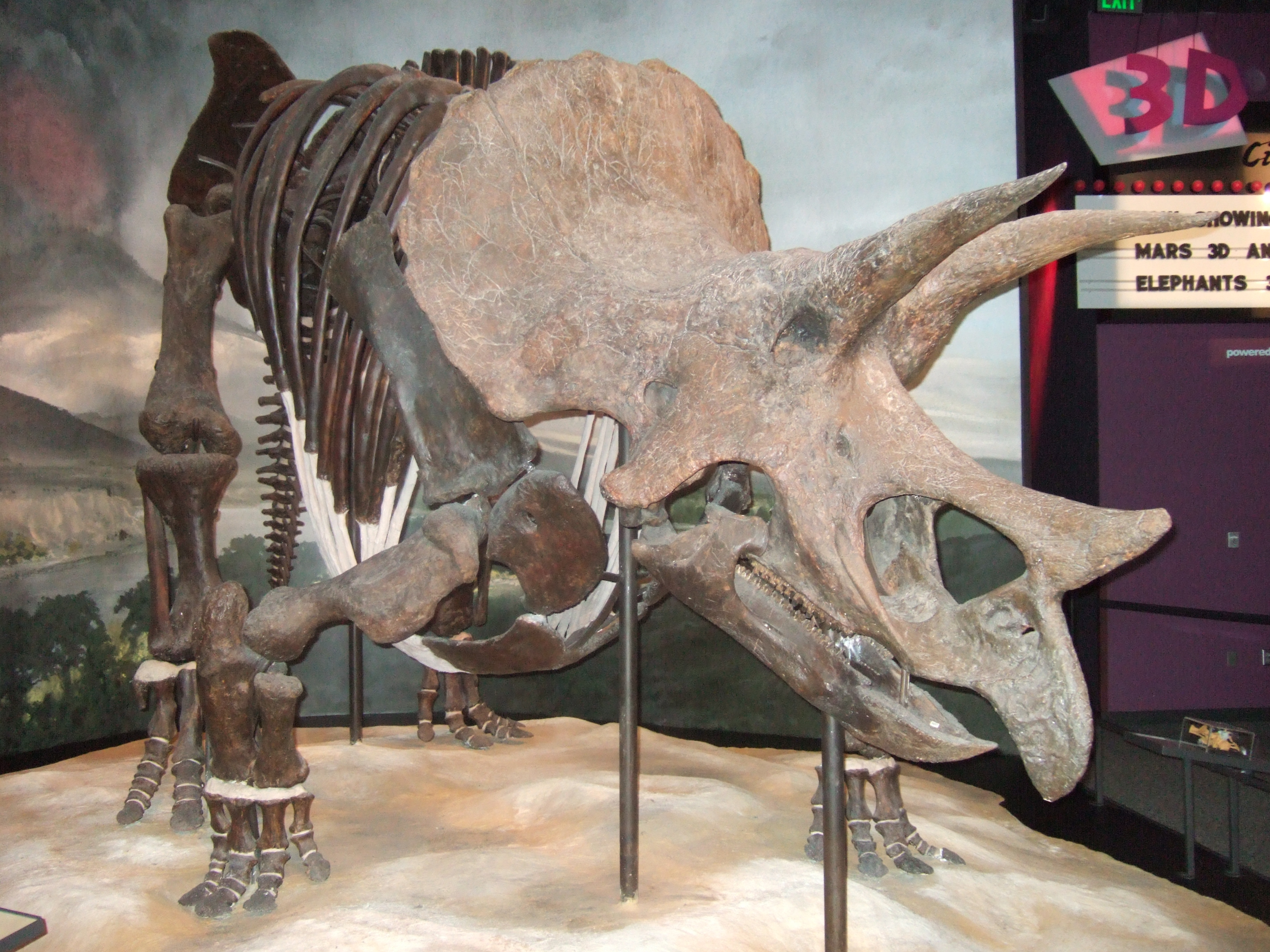 Triceratops at Science Museum of Minnesota